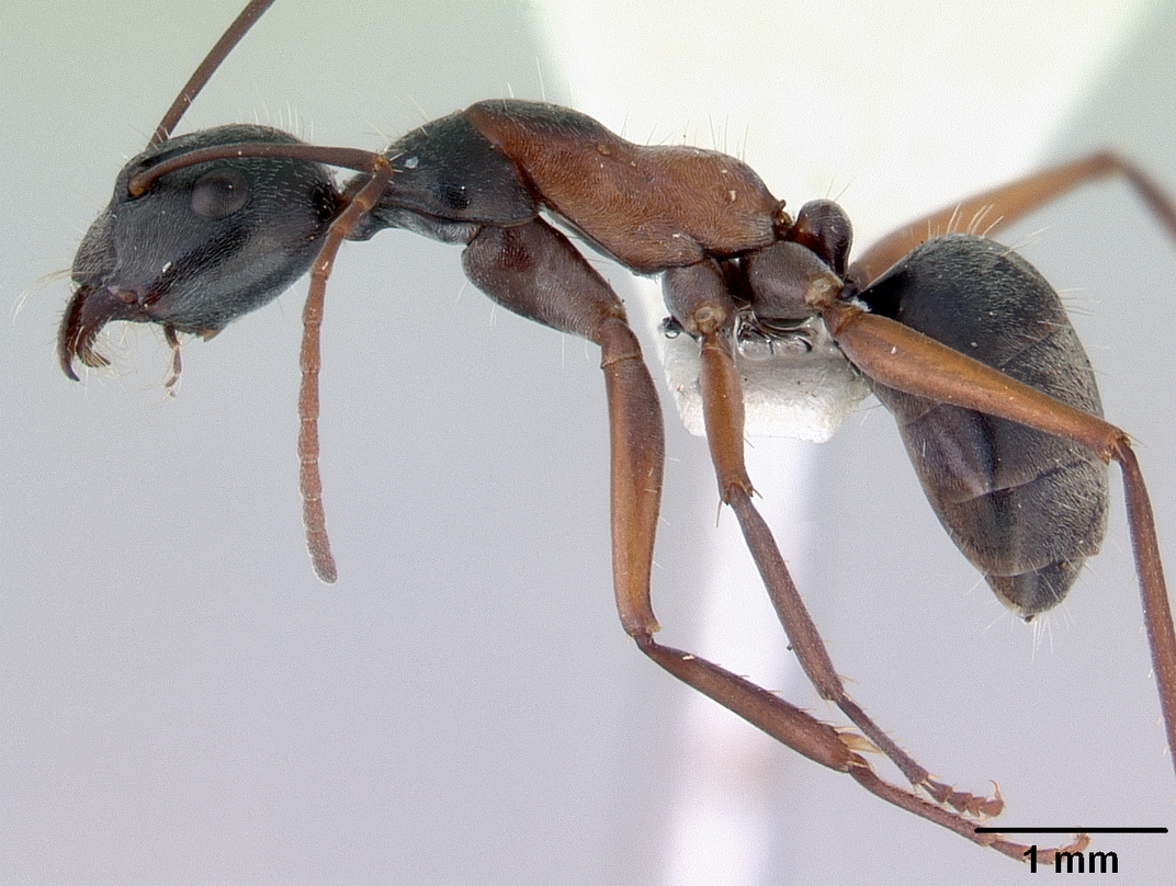 Profile view of ant Camponotus rufonigrus specimen casent0172144.